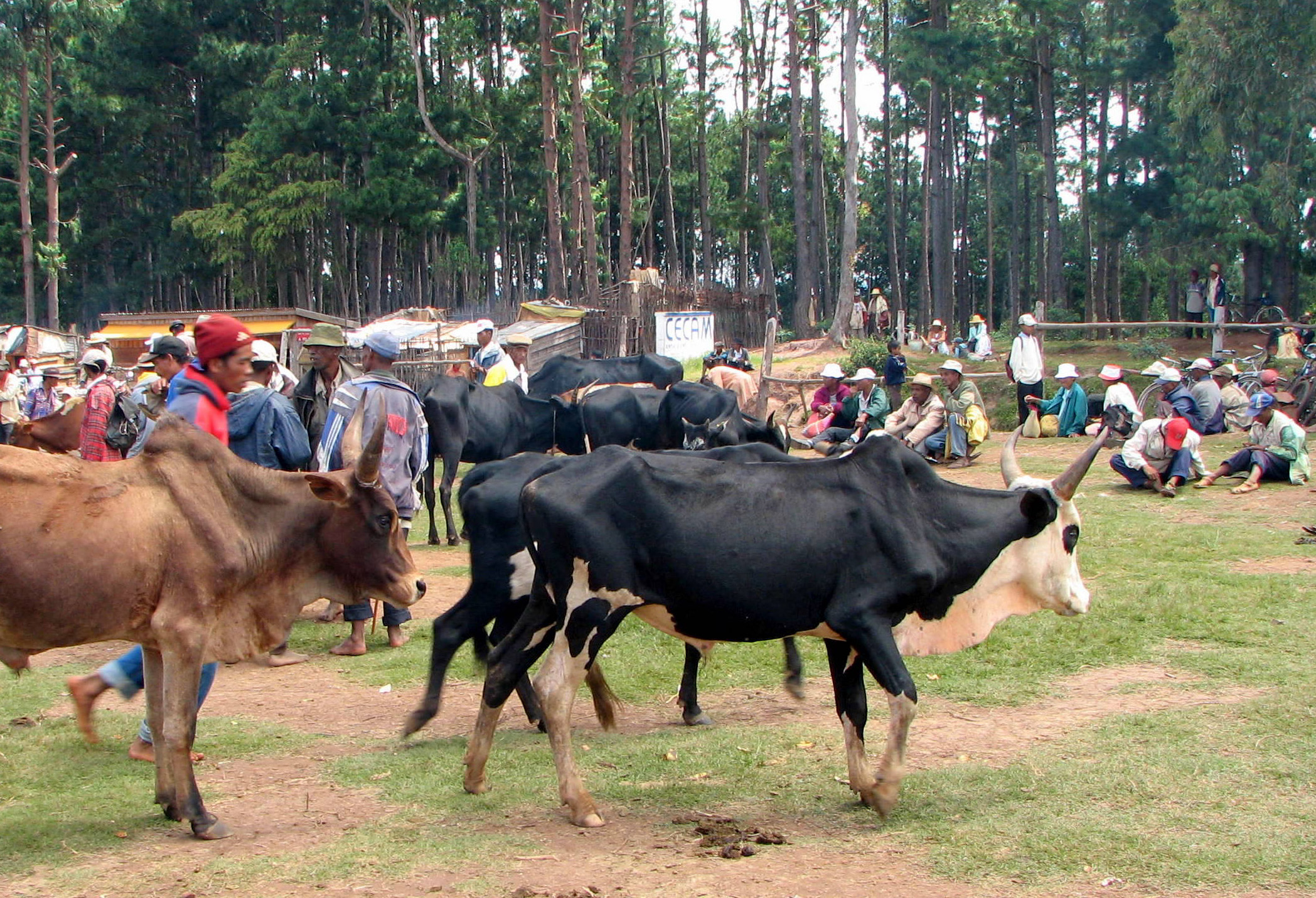 Zebus at Ambatolampy market, Madagascar